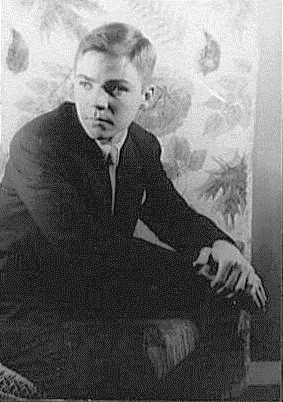 Portrait of Donald Bachardy